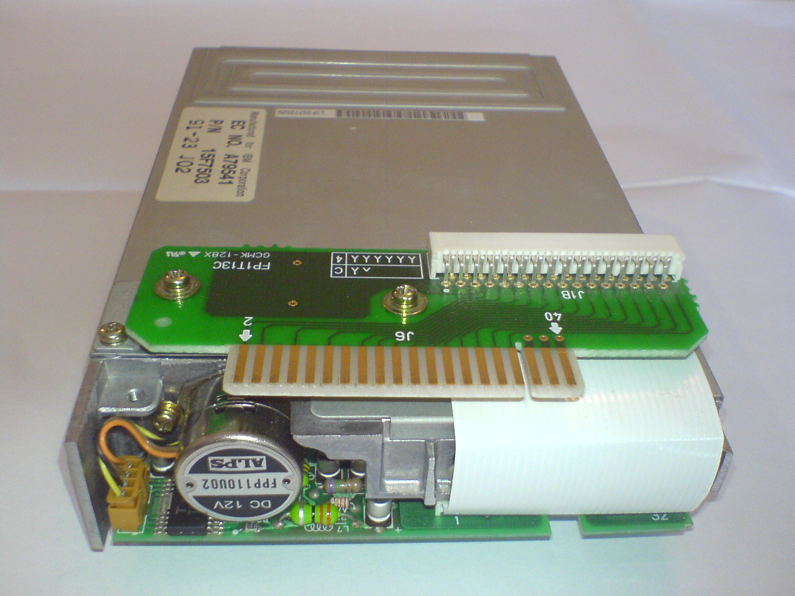 IBM Personal System/2 Model 70 floppy drive (back view)